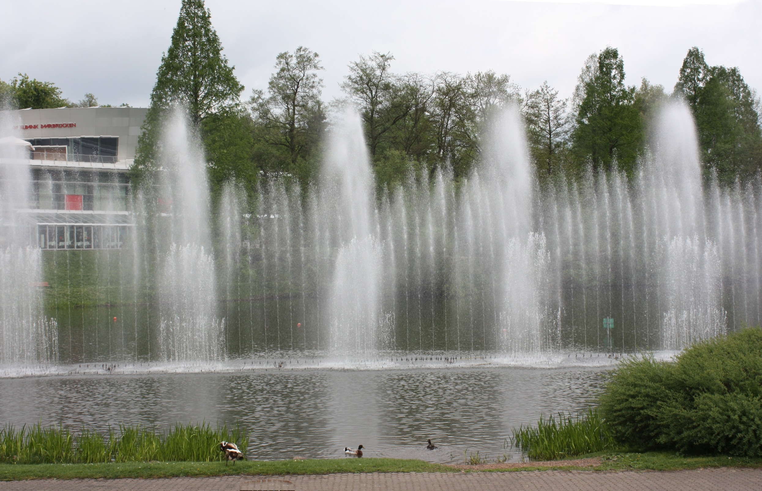 Saarbrücken, the German-Franco-Garden This is a photograph of an architectural monument.It is on the list of cultural monuments of Deutschmühlental 15